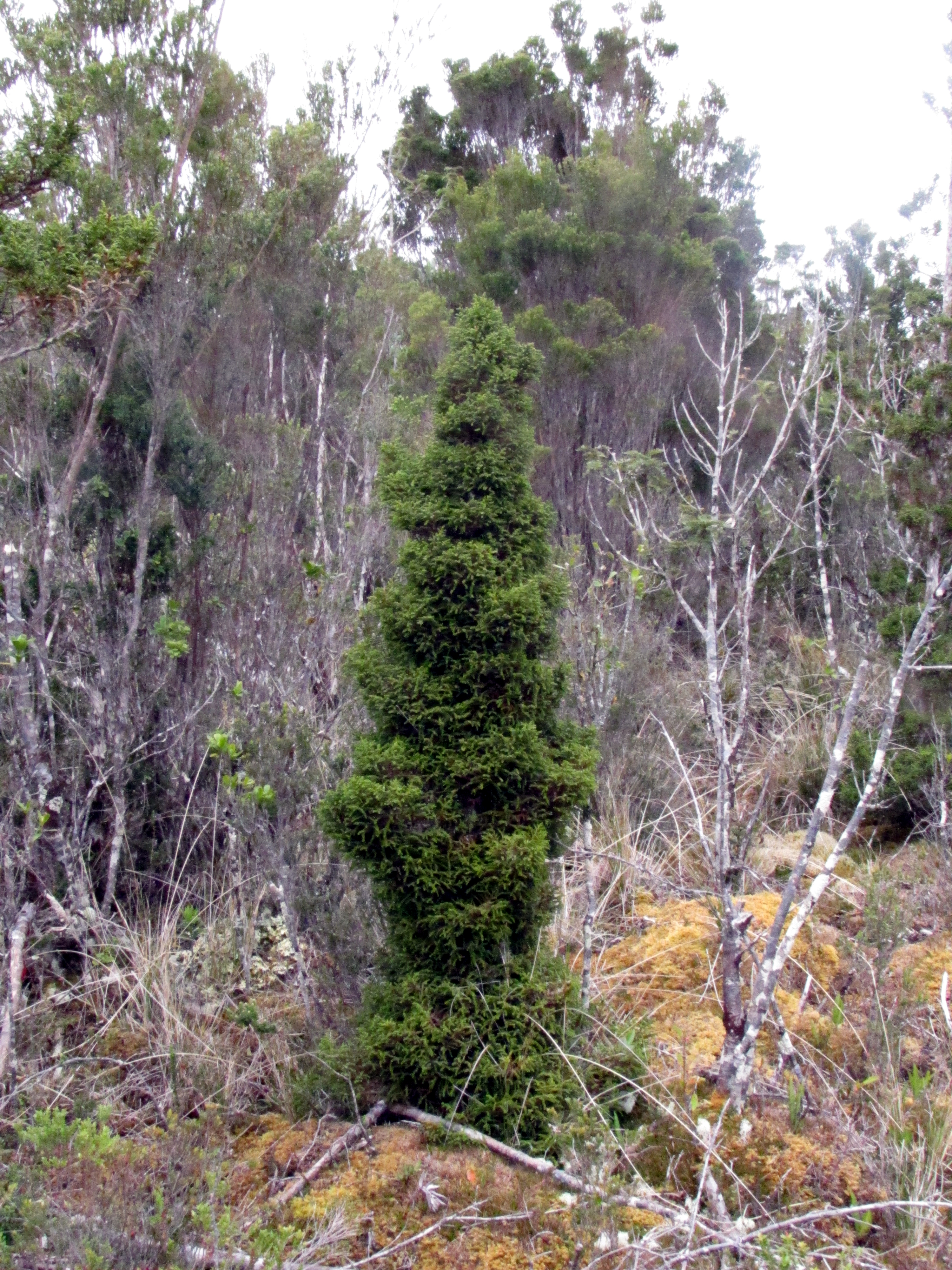 Pilgerodendron (Pilgerodendron uviferum) in a bog of Sphagnum magellanicum in Chiloé Island, Chile.